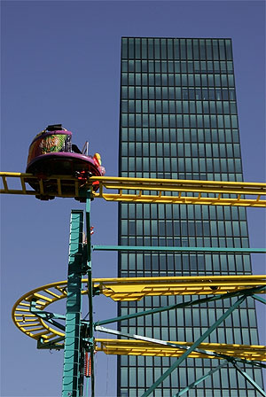 Basel Autumn Fair: Carnival ride in front of Messeturm building